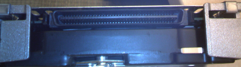 Support file for Wikipedia article on SCSI interfaces